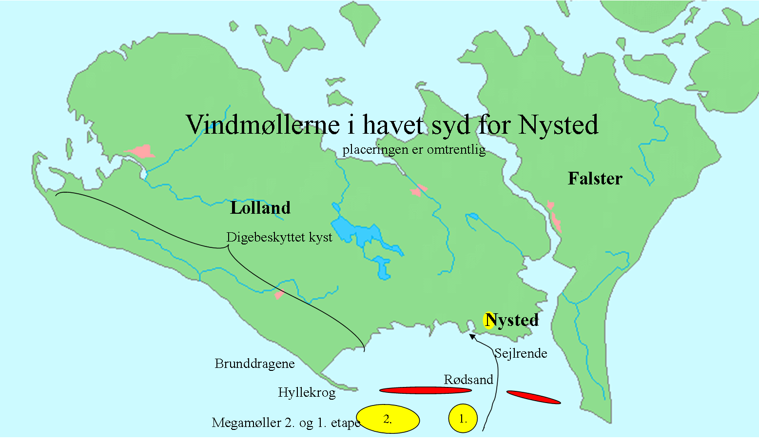 Map of Rødsand wind farm south of the island Lolland in Denmark